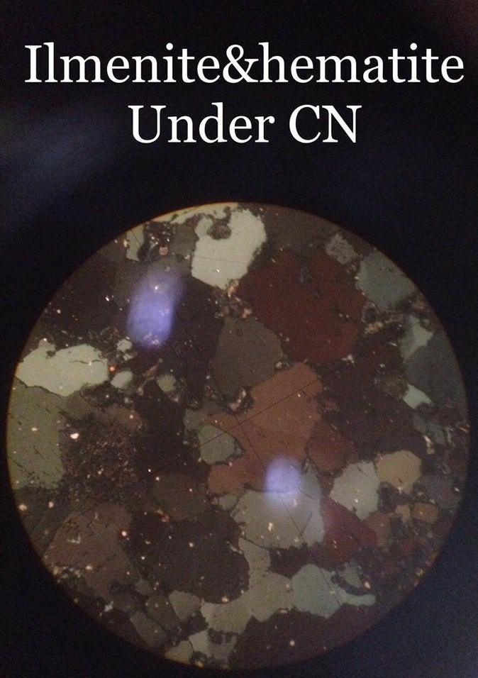 Microscopic image of Ilmenite and hematite under polarized light